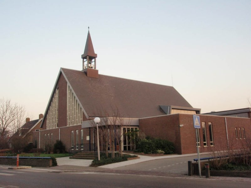 gereformeerde_gemeente_aagtekerke